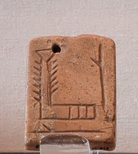 Pendant bearing the sign EN, meaning "lord" or "master"; on the other face, emblem of the goddess Inanna. Probably from Uruk.